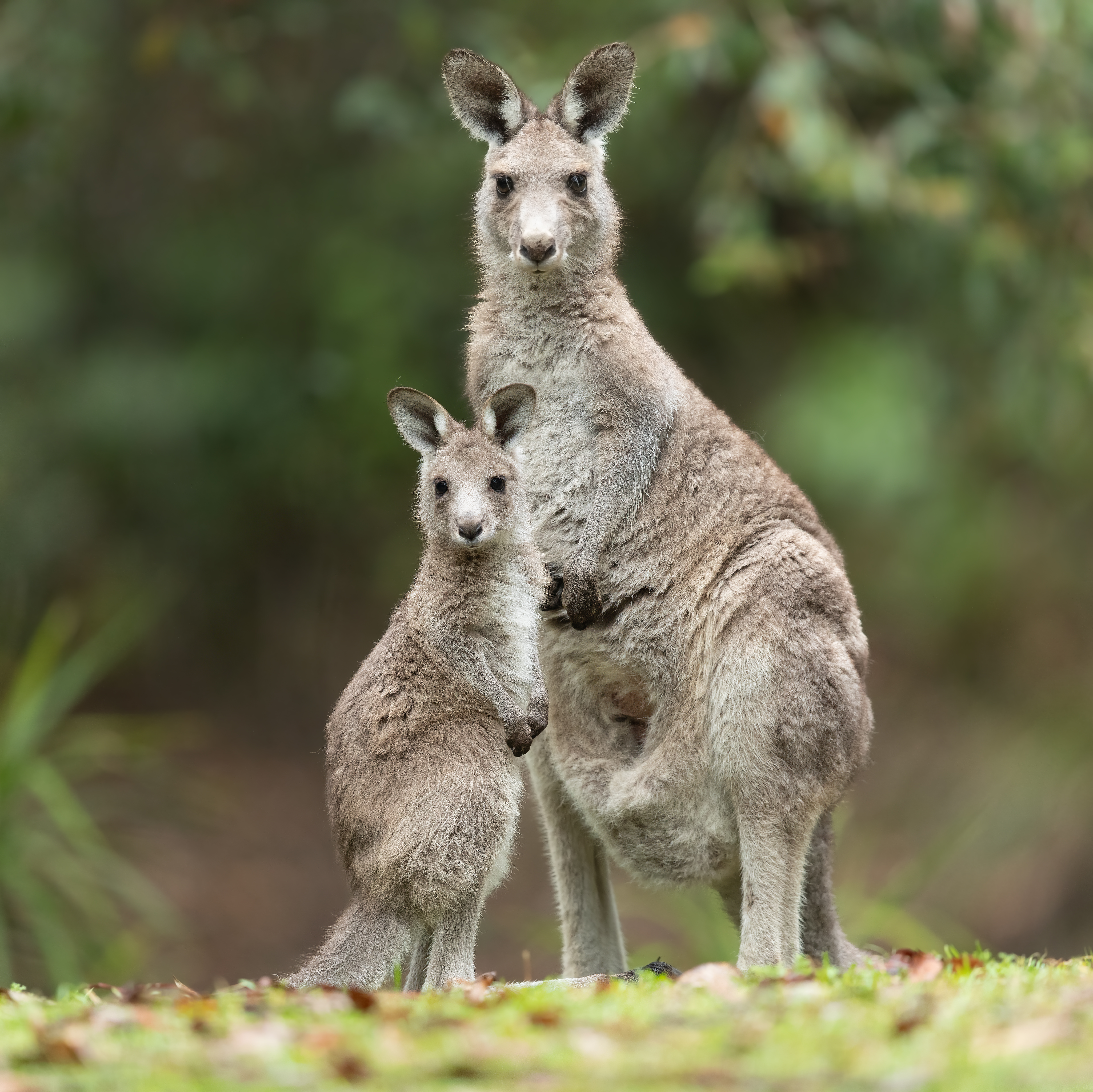 Eastern Grey Kangaroo mother and joey, Brunkerville, New South Wales, Australia